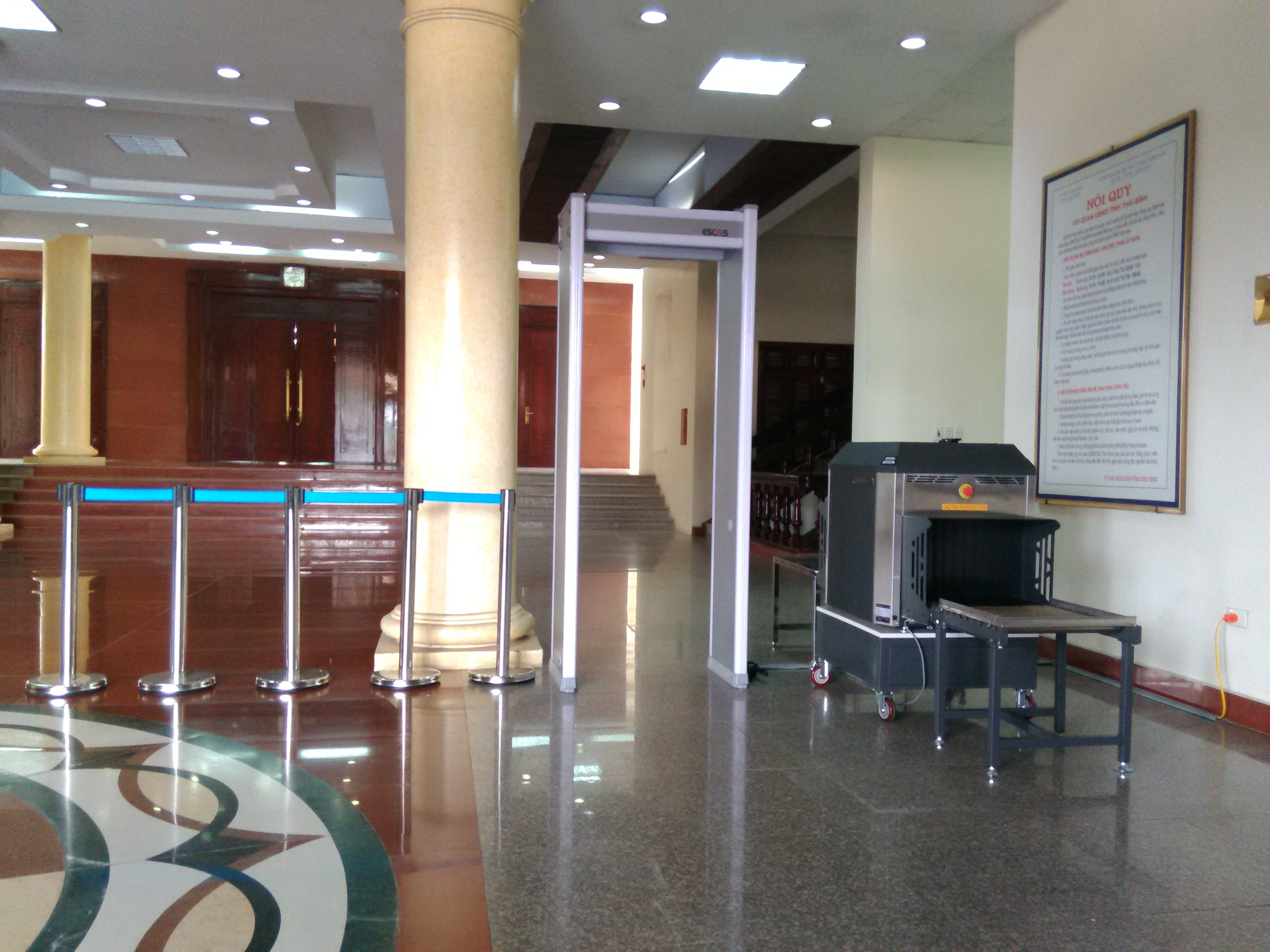 X-ray baggage scanner and magnetometer at the checkpoint